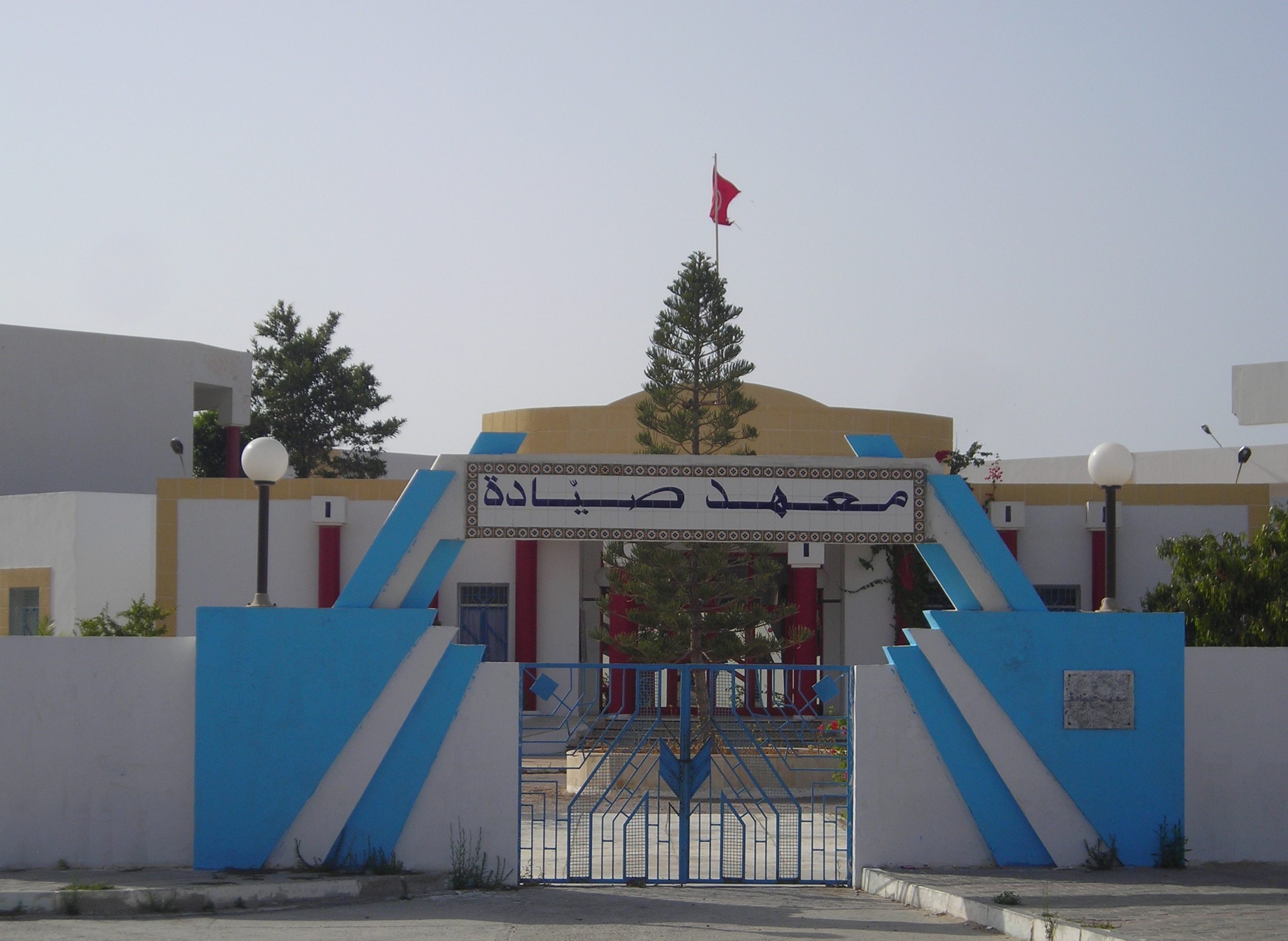 Secondary School in Sayada